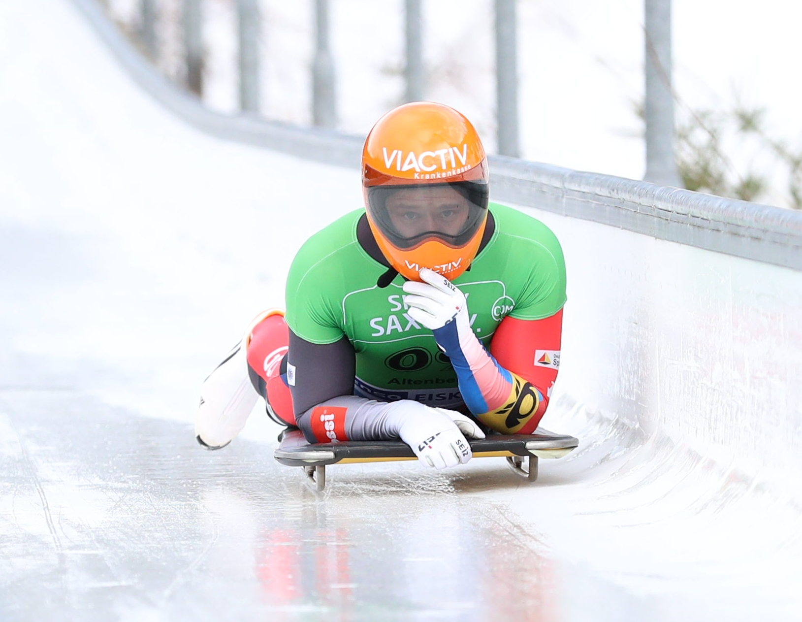 2nd run at the Men's competition at the German Skelton Championships 2018/19 in Altenberg